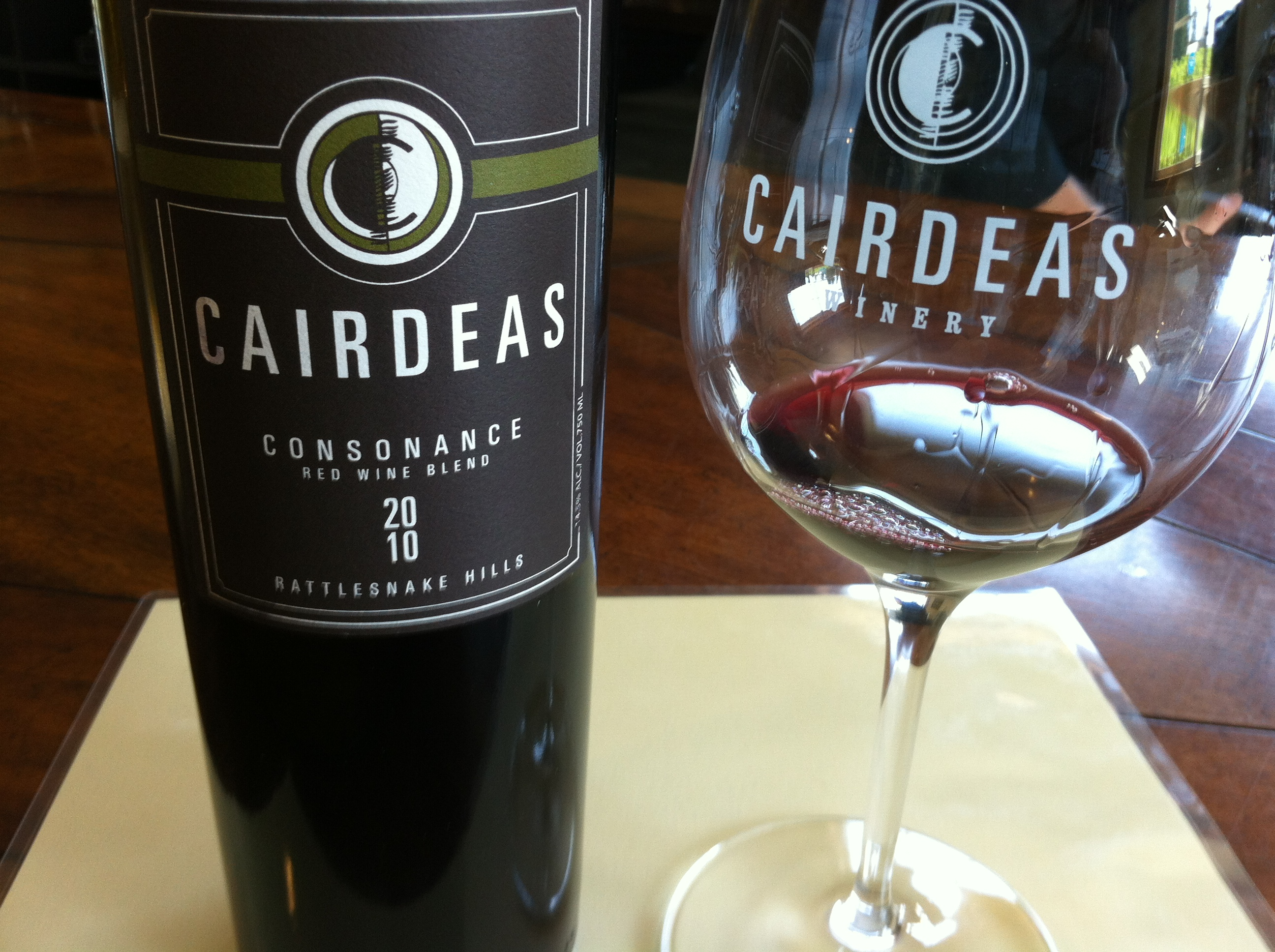 Washington wine from the Rattlesnake Hills AVA of the Columbia Valley